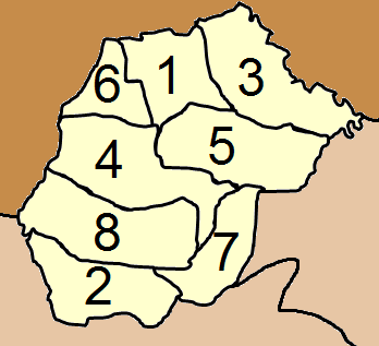 Based on this map